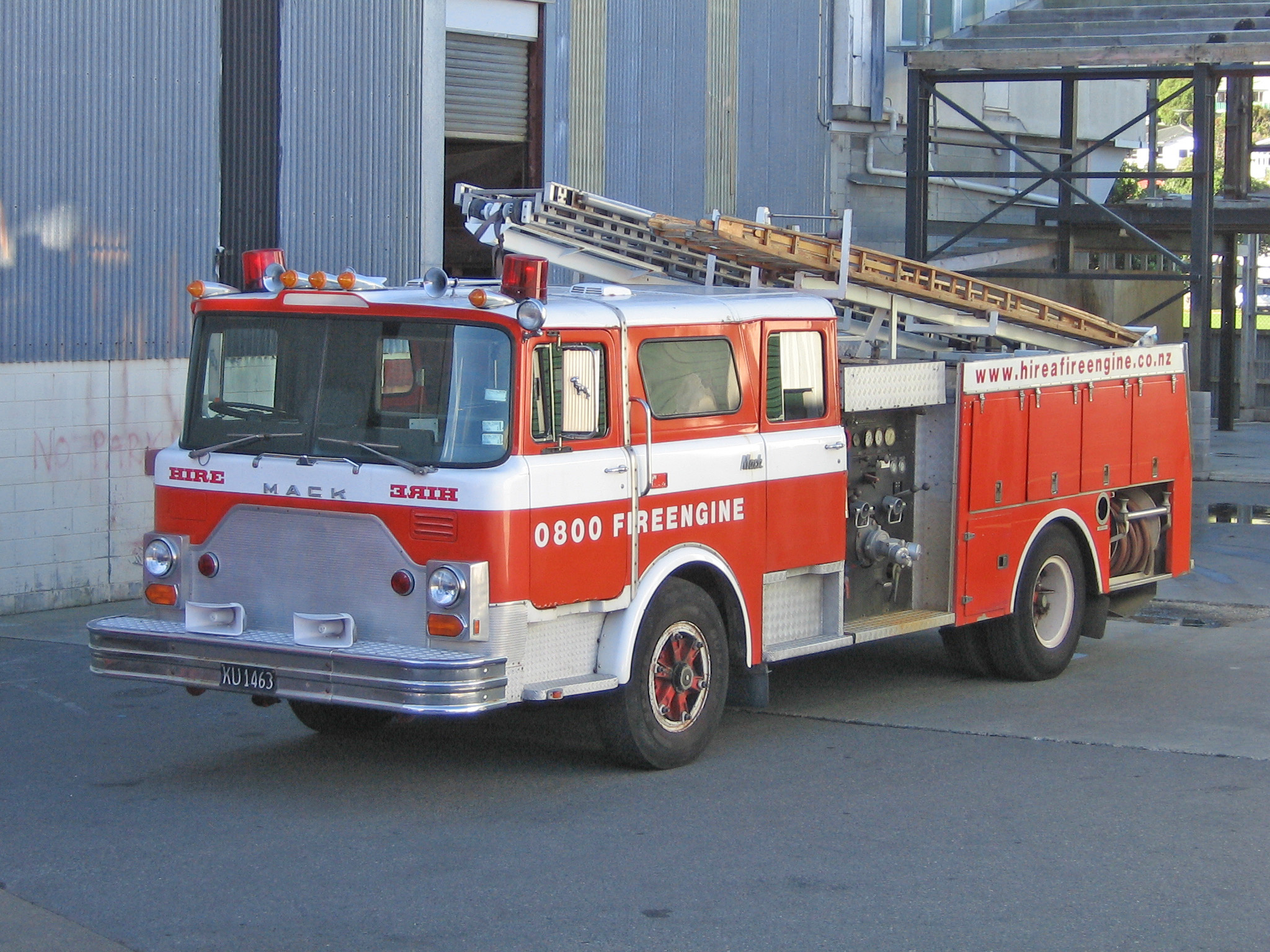 1982 Mack CF685FC More photos at